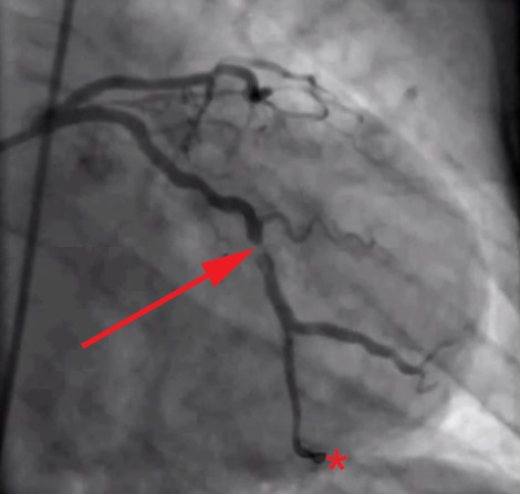 Coronary angiography of a patient with STEMI being treated with primary percoutaneous coronary intervention, showing partial occlusion of left circumflex coronary artery. The guide wire has traversed the occlusion and its tip is visible at the bottom of the image.